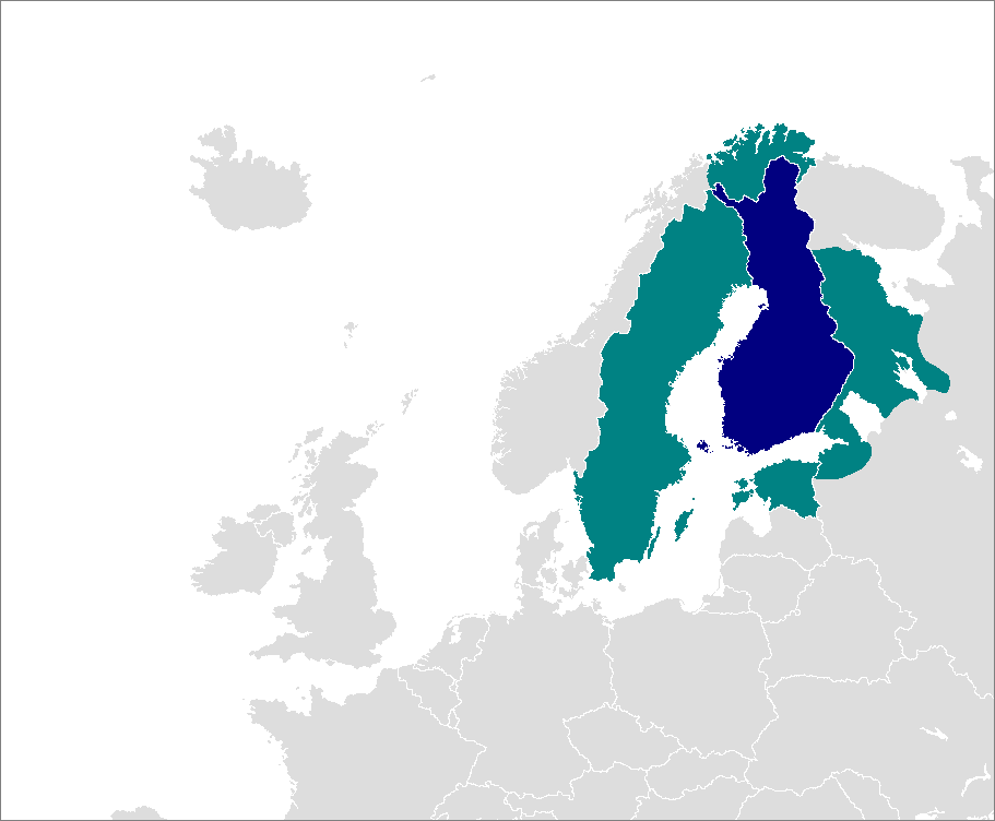 Map of the areas where the Finnish language is spoken.